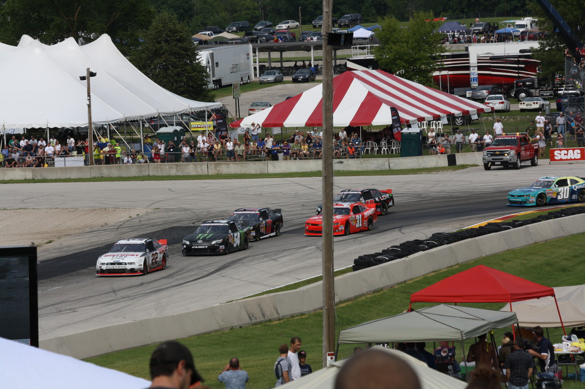 The front of the field doing a pace lap right before the start of the 2013 Johnsonville Sausage 200 NASCAR Nationwide Series race at Road America. #22 AJ Allmendinger, #54 Owen Kelly, #77 Parker Kligerman, #31 Justin Allgaier, #18 Michael McDowell, and #30 Nelson Piquet Jr.